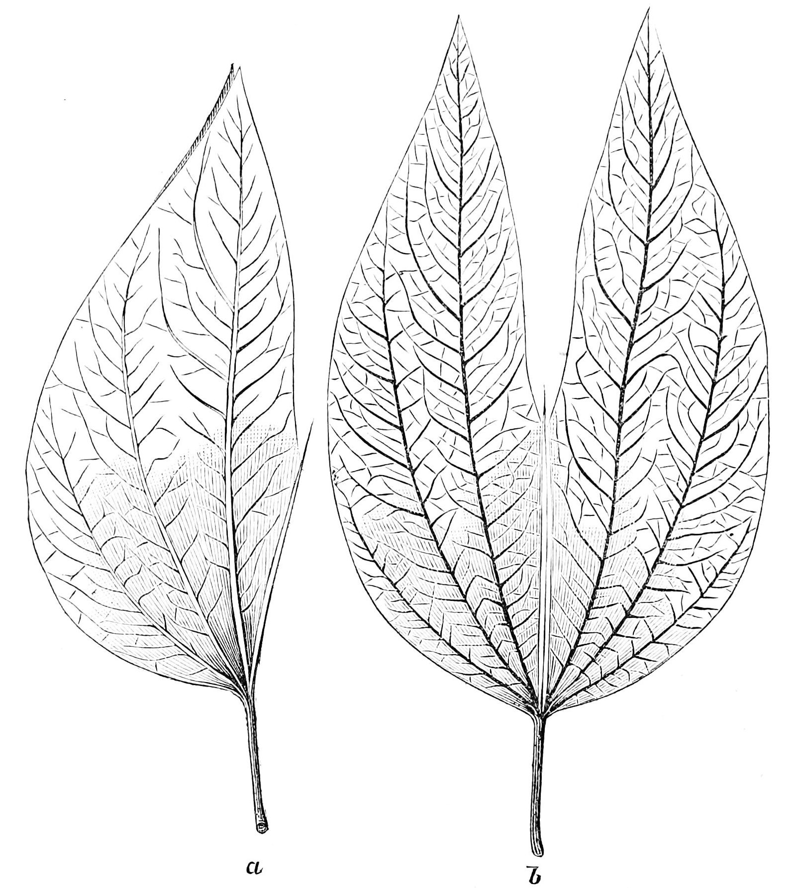 Leaf of Bauhinia forficata (syn. Bauhinia braziliensis)